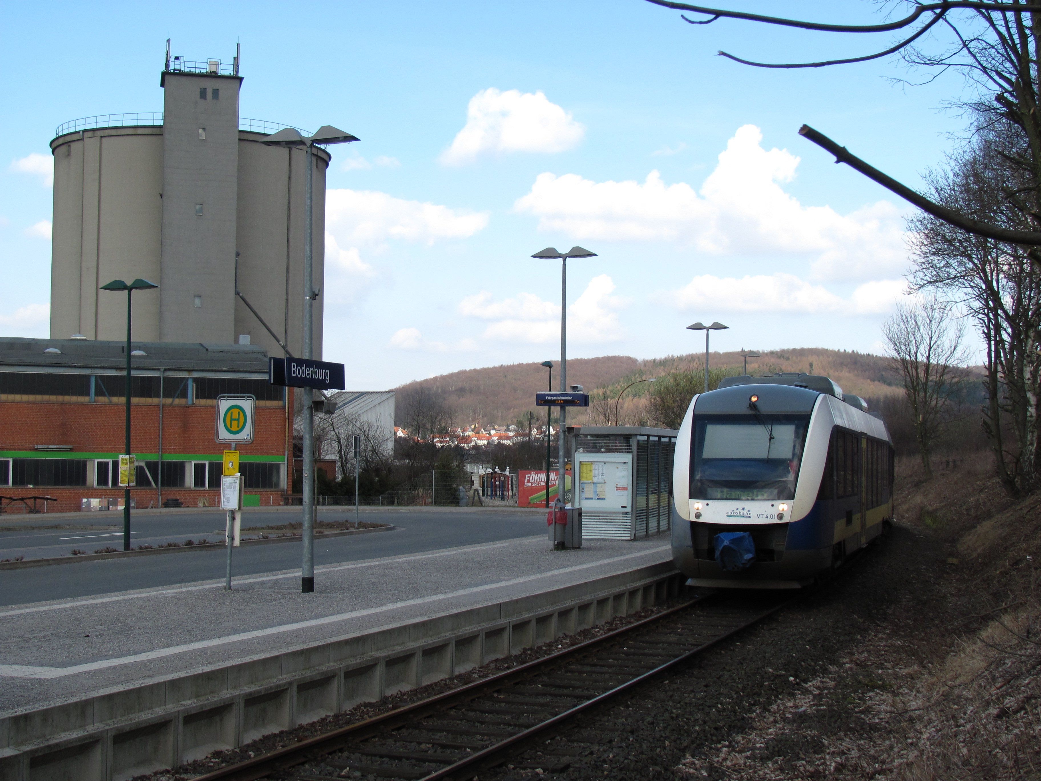 New railway station, Bad Salzdetfurth-Bodenburg, Lower Saxony, Germany